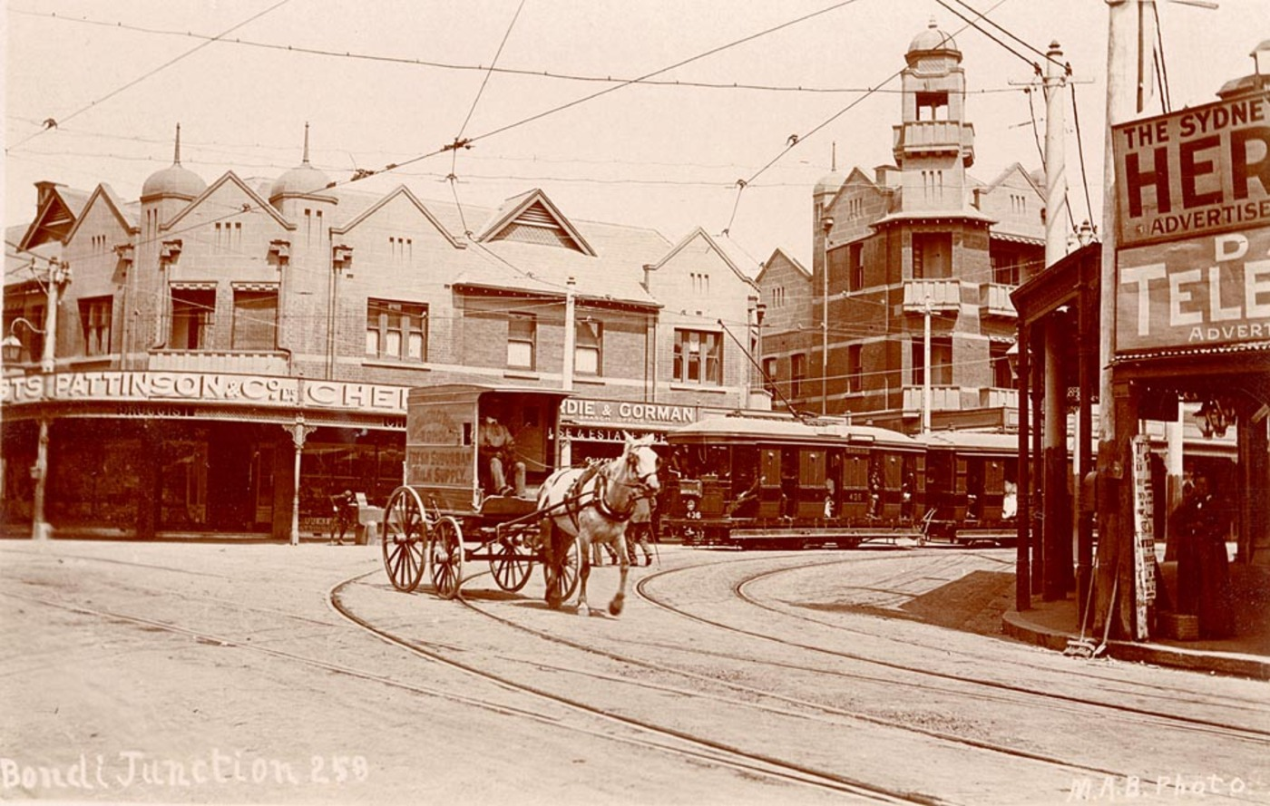 Bondi Junction [including Pattinson & Co. Chemist]